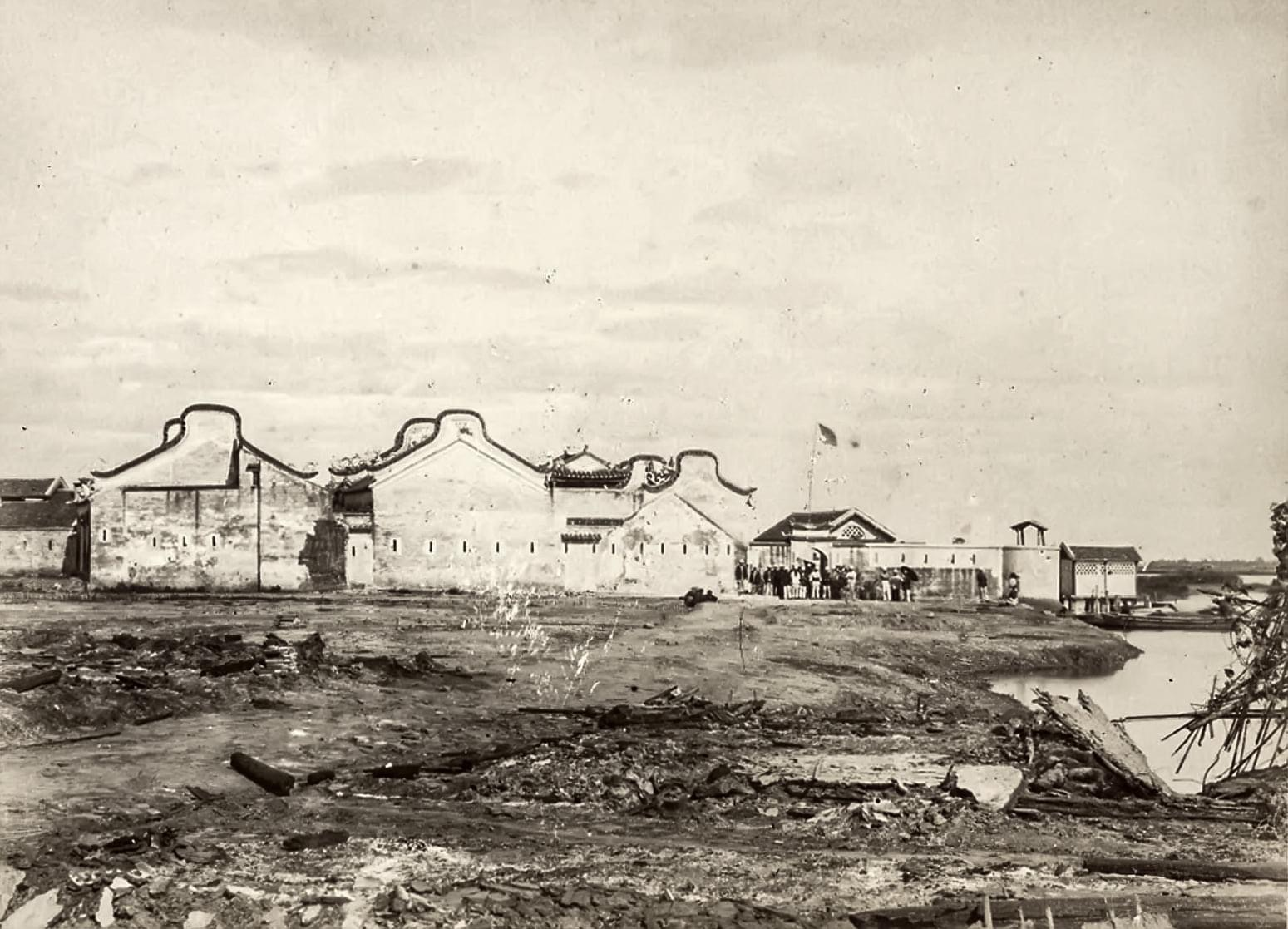 Một góc thành Hải Dương Vue générale de Haï-Duong